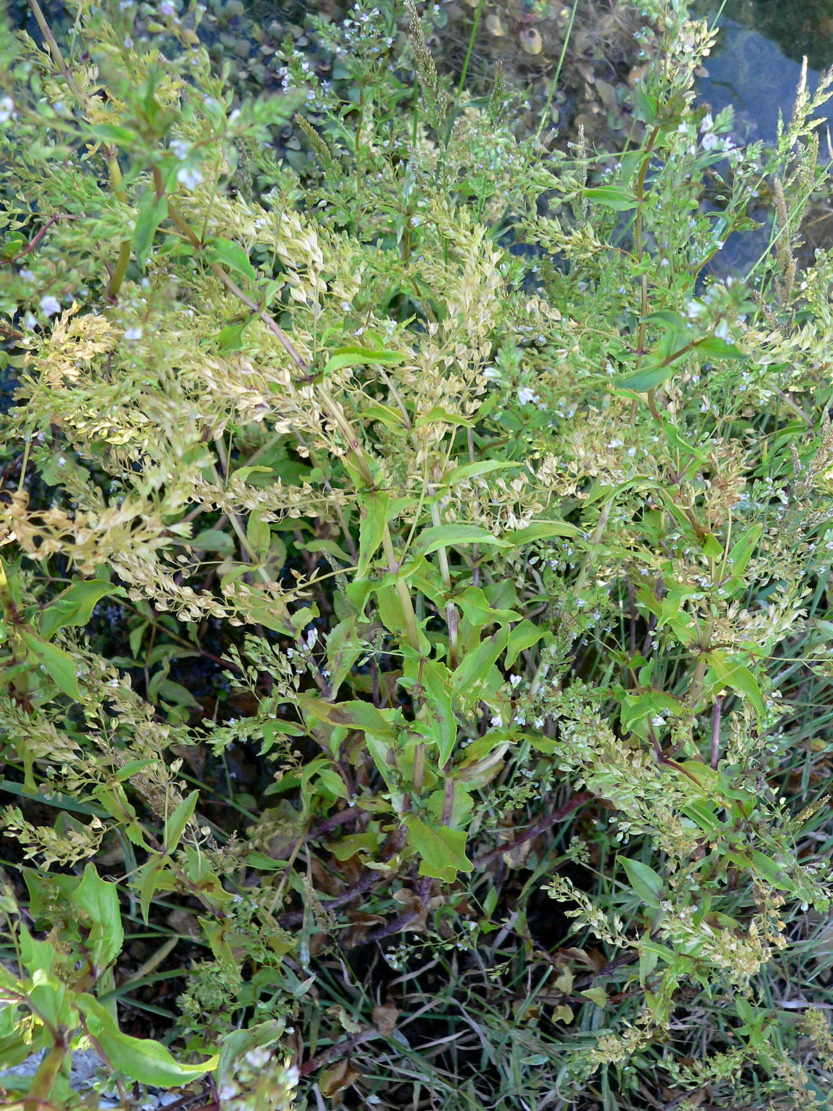 Veronica anagallis-aquatica in water at White Rock Spring,Red Rock Canyon, Spring Mountains, southern Nevada (elev. about 1500 m)